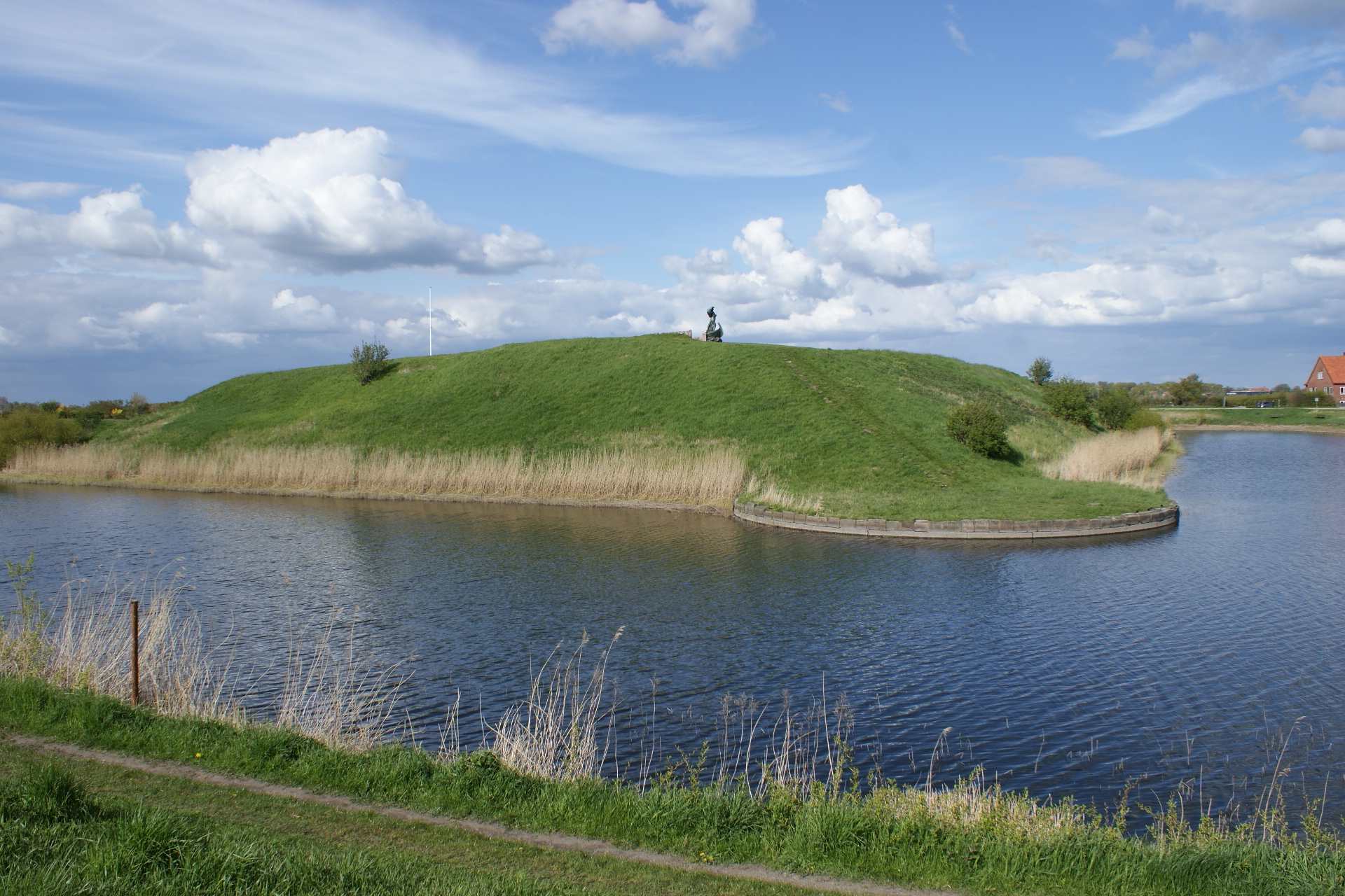 Ruins of Riberhus Castle, Denmark